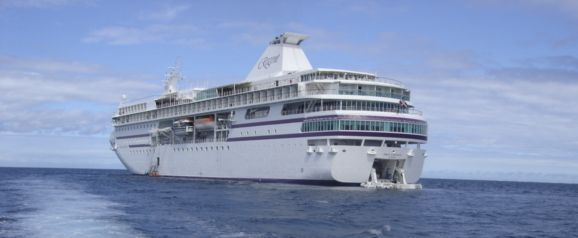 photo by Filip Margan, Malolo Islands, 2007